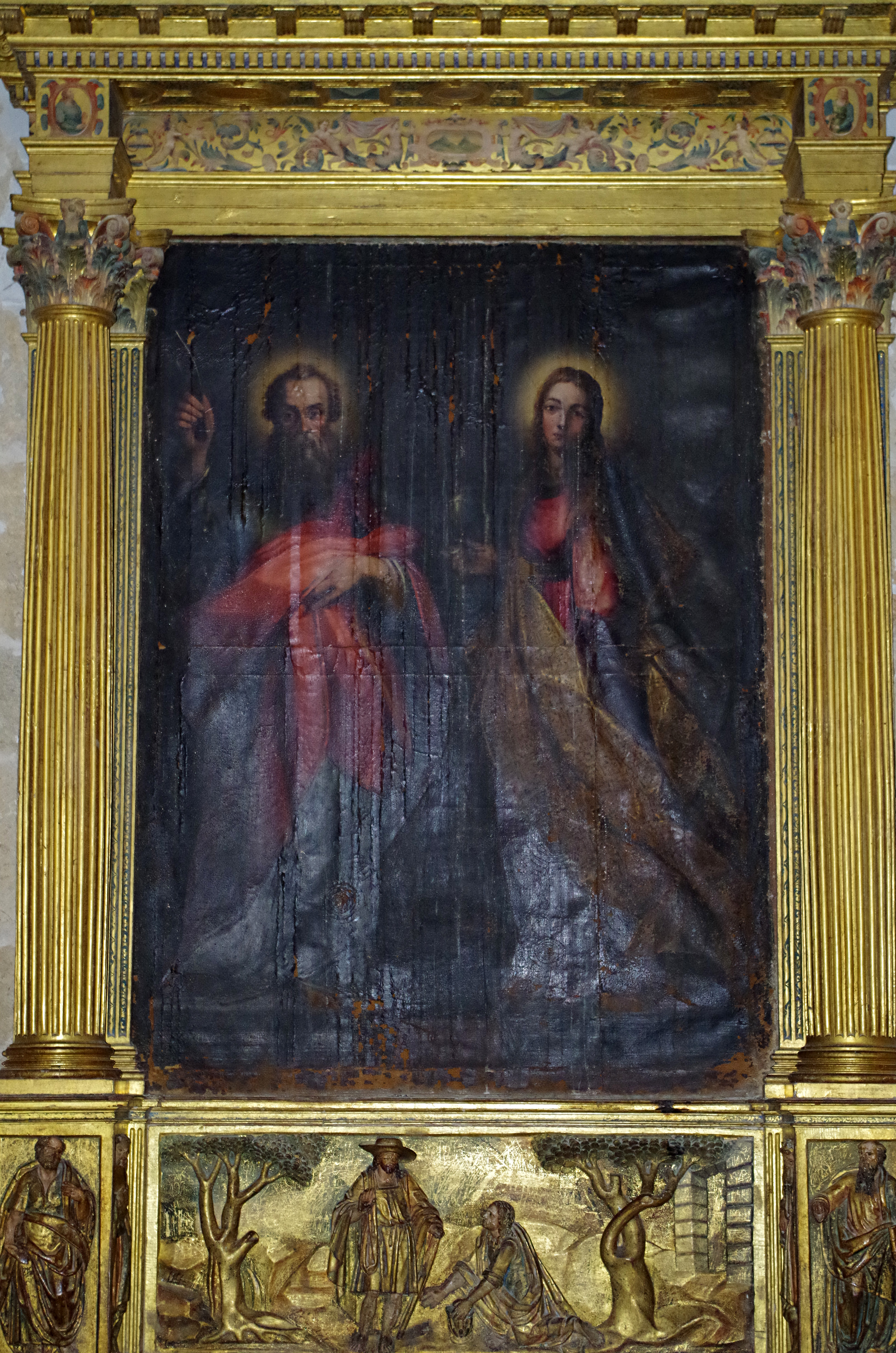 Antonio Stella's painting of Saint John the Evangelist and Saint Bartholomew. Cathedral of Palencia (Spain).